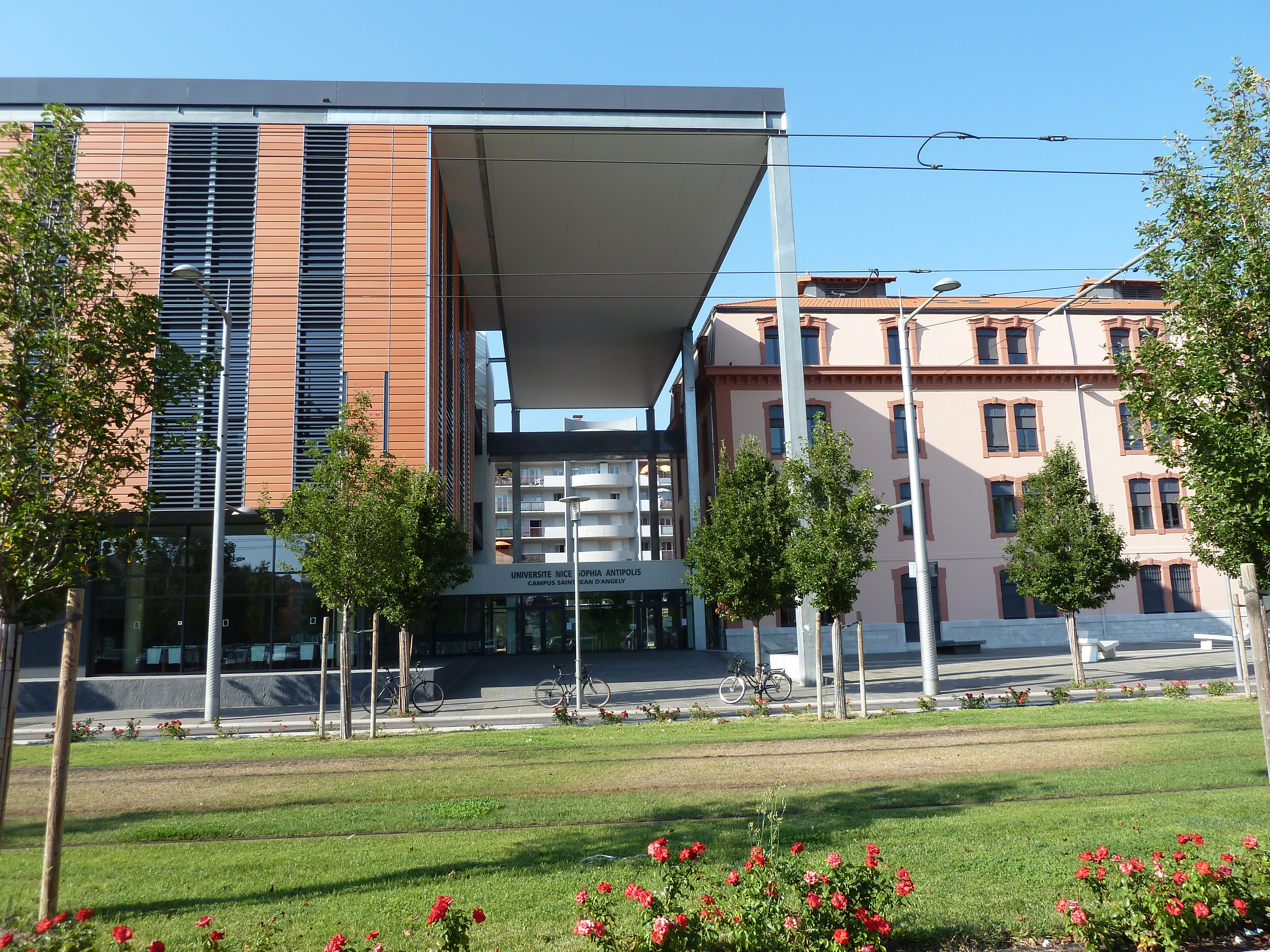 Campus Saint-Jean d'Angély of university Nice Sophia Antipolis